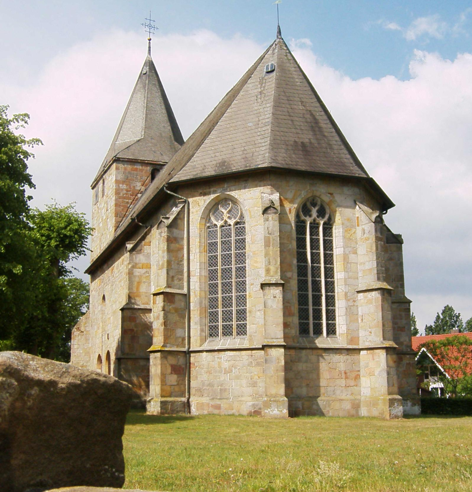 The Evangelical Reformed Church in Ohne, Lower Saxony, Germany, Grafschaft Bentheim's oldest (partly from the 13th century). The church is owned and used by a Reformed congregation within the Evangelical Reformed Church – Synod of Reformed Churches in Bavaria and Northwestern Germany.